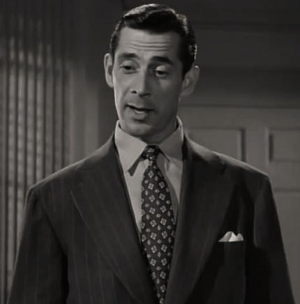 Reed Hadley in Shock - cropped screenshot